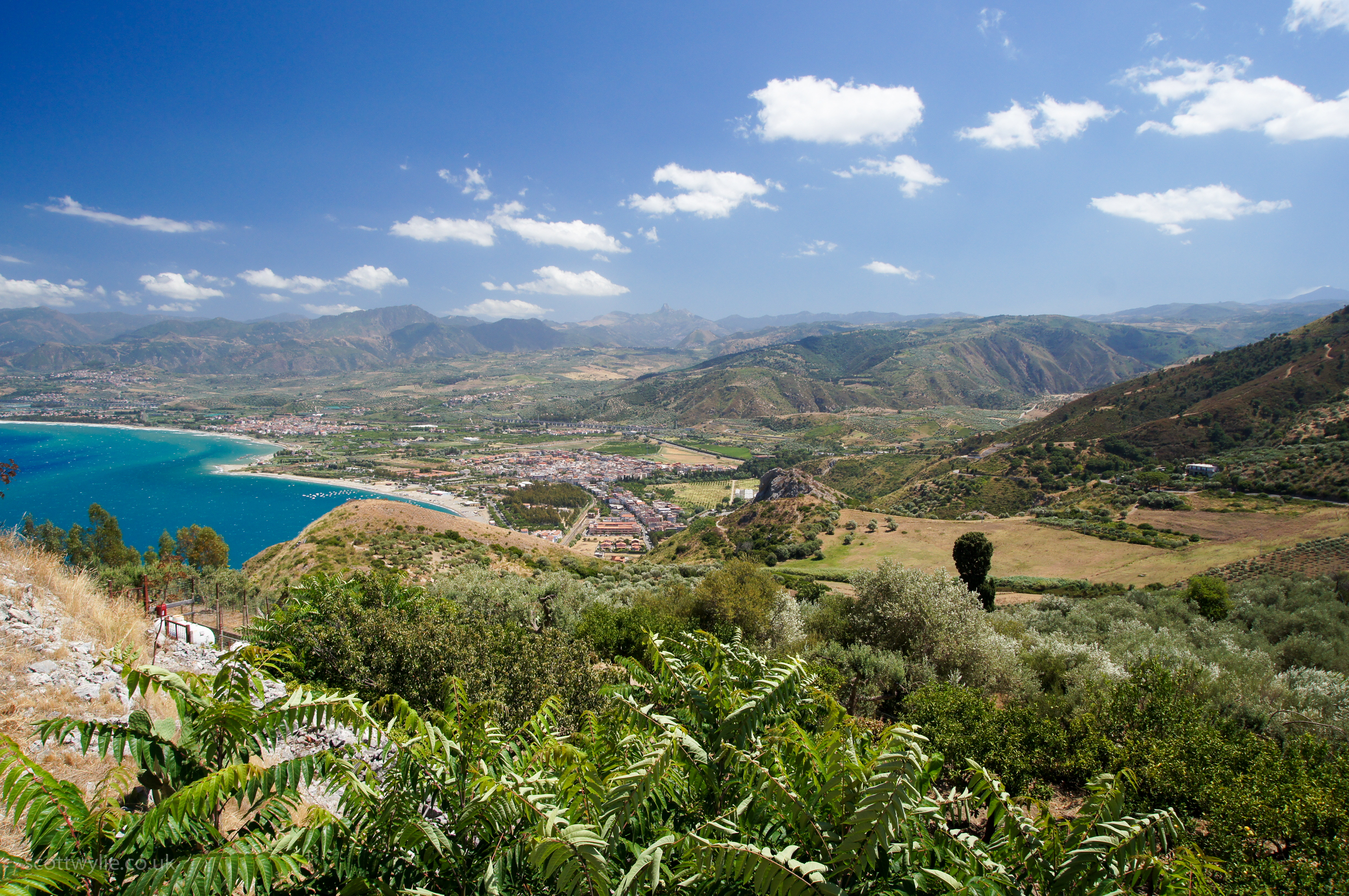 Sicily